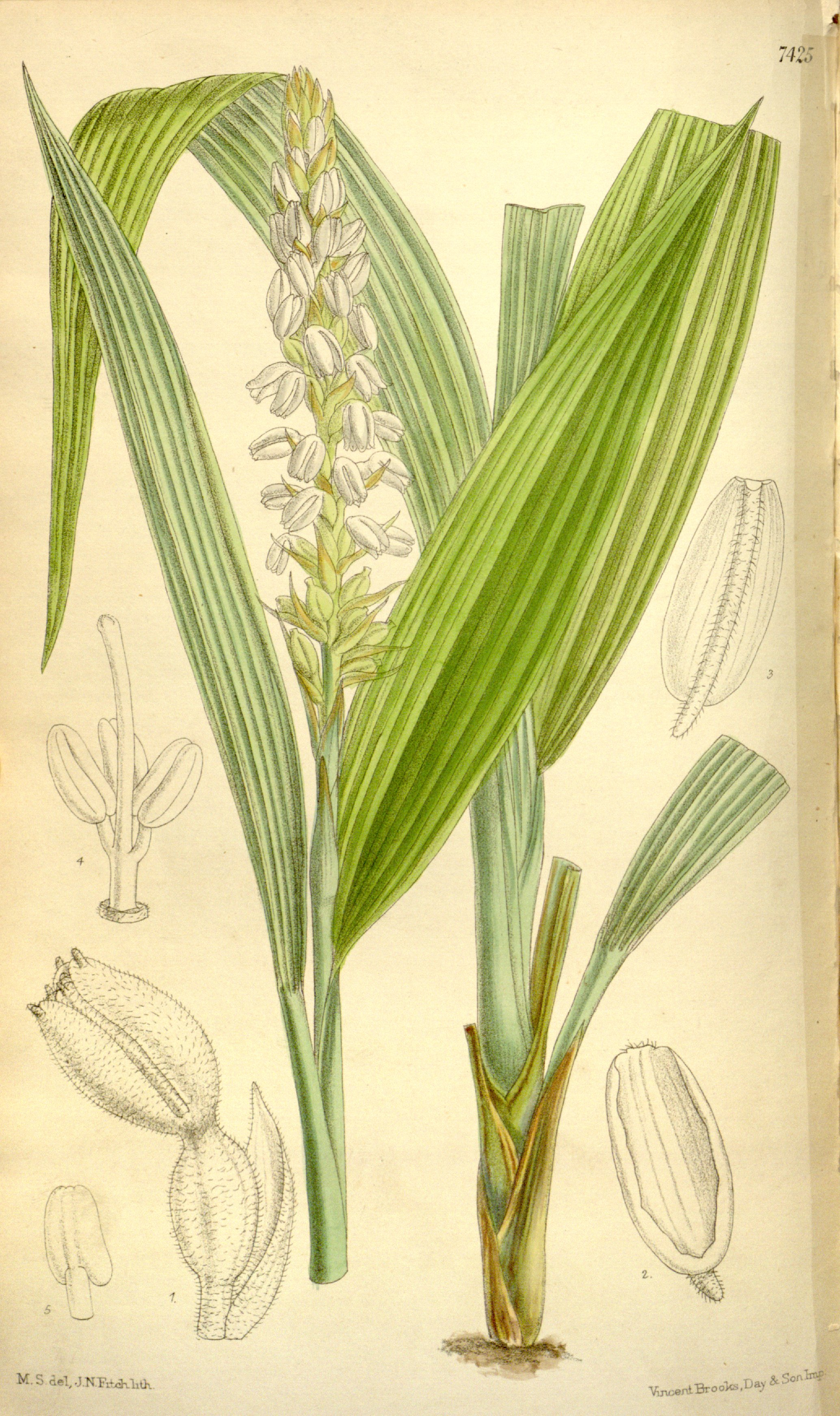 Illustration of Neuwiedia griffithii